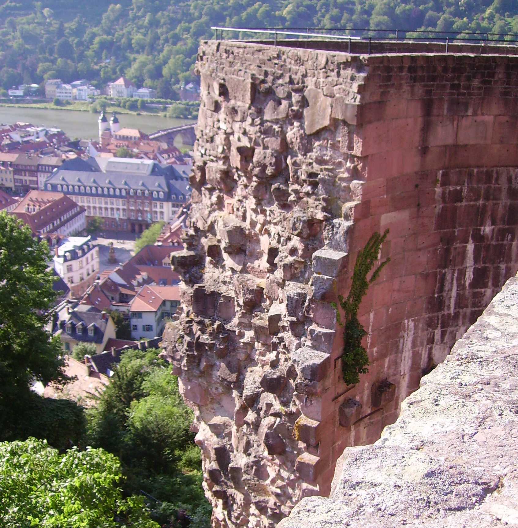 views of Heidelberg castle, Germany